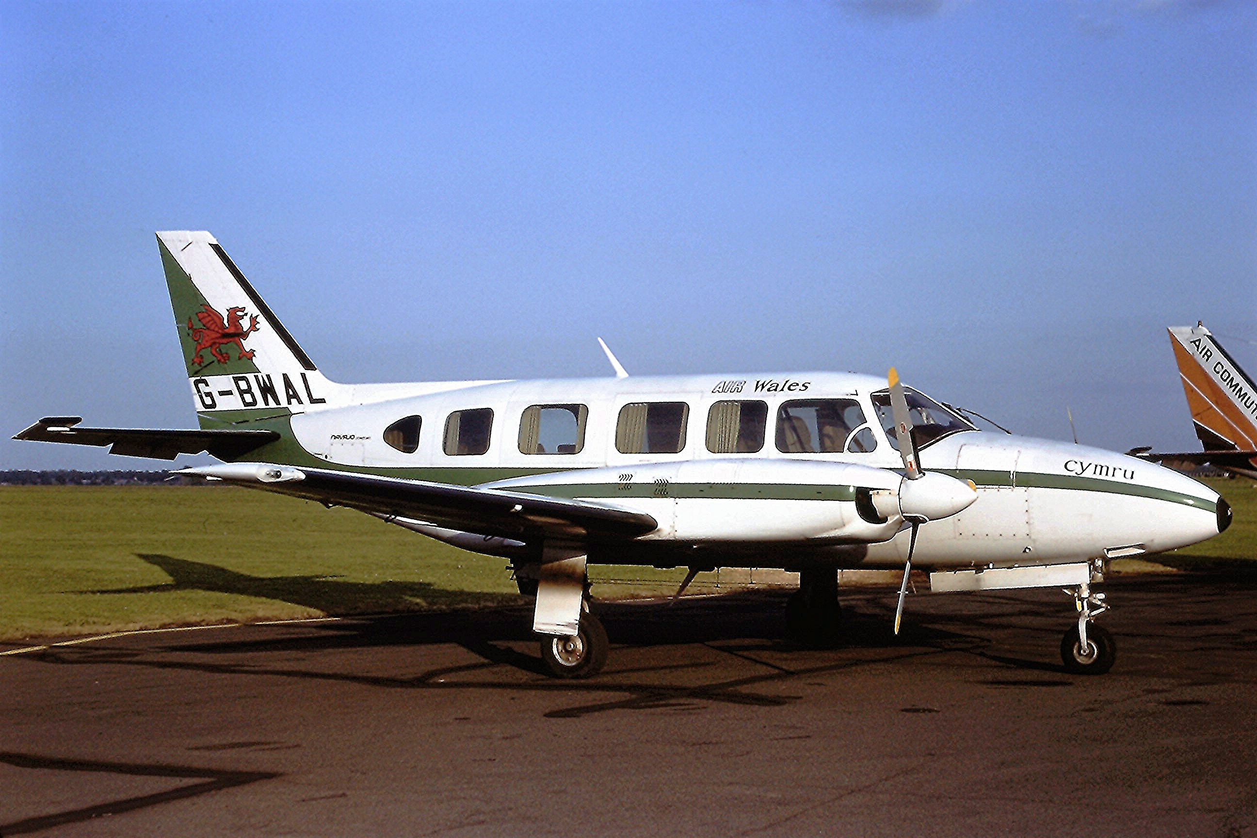 G-BWAL Piper PA31-350 Navajo Chieftain Air Wales Coventry 22-07-1979